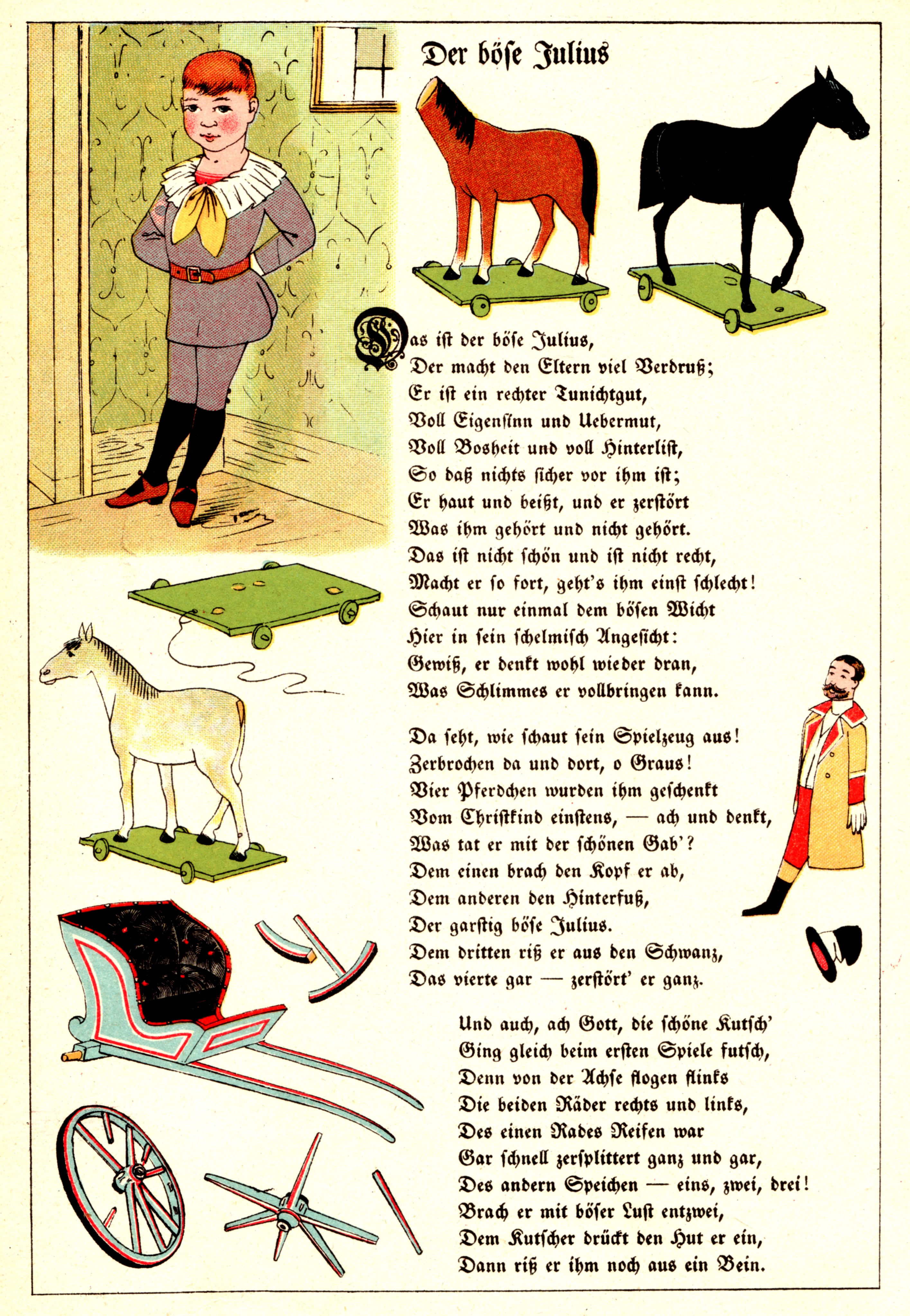 page from Julius Beck, Neues Struwwelpeterbuch